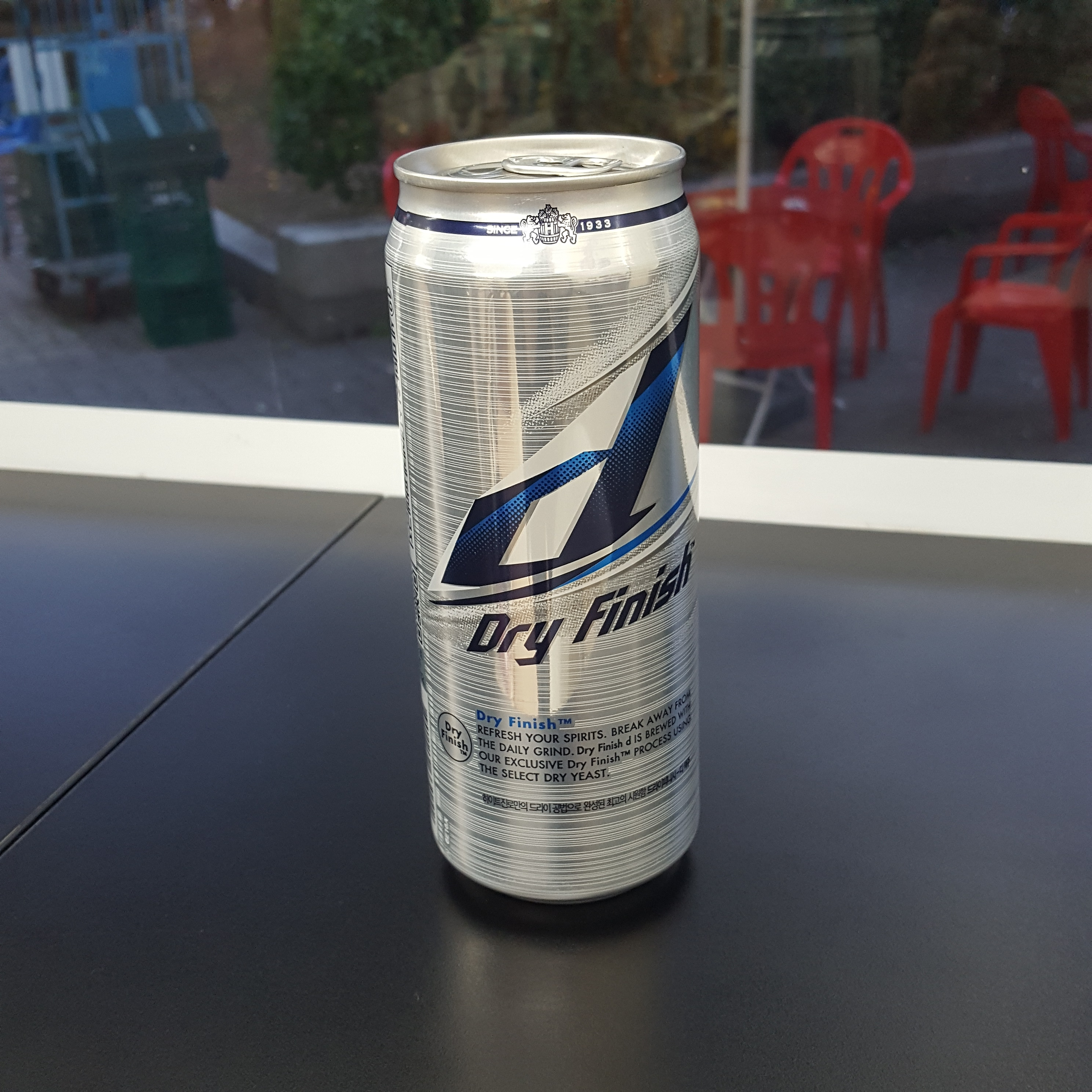 Beer brand Dryfinish